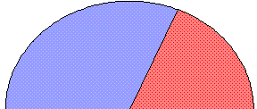 Illinois senate members by party affiliation